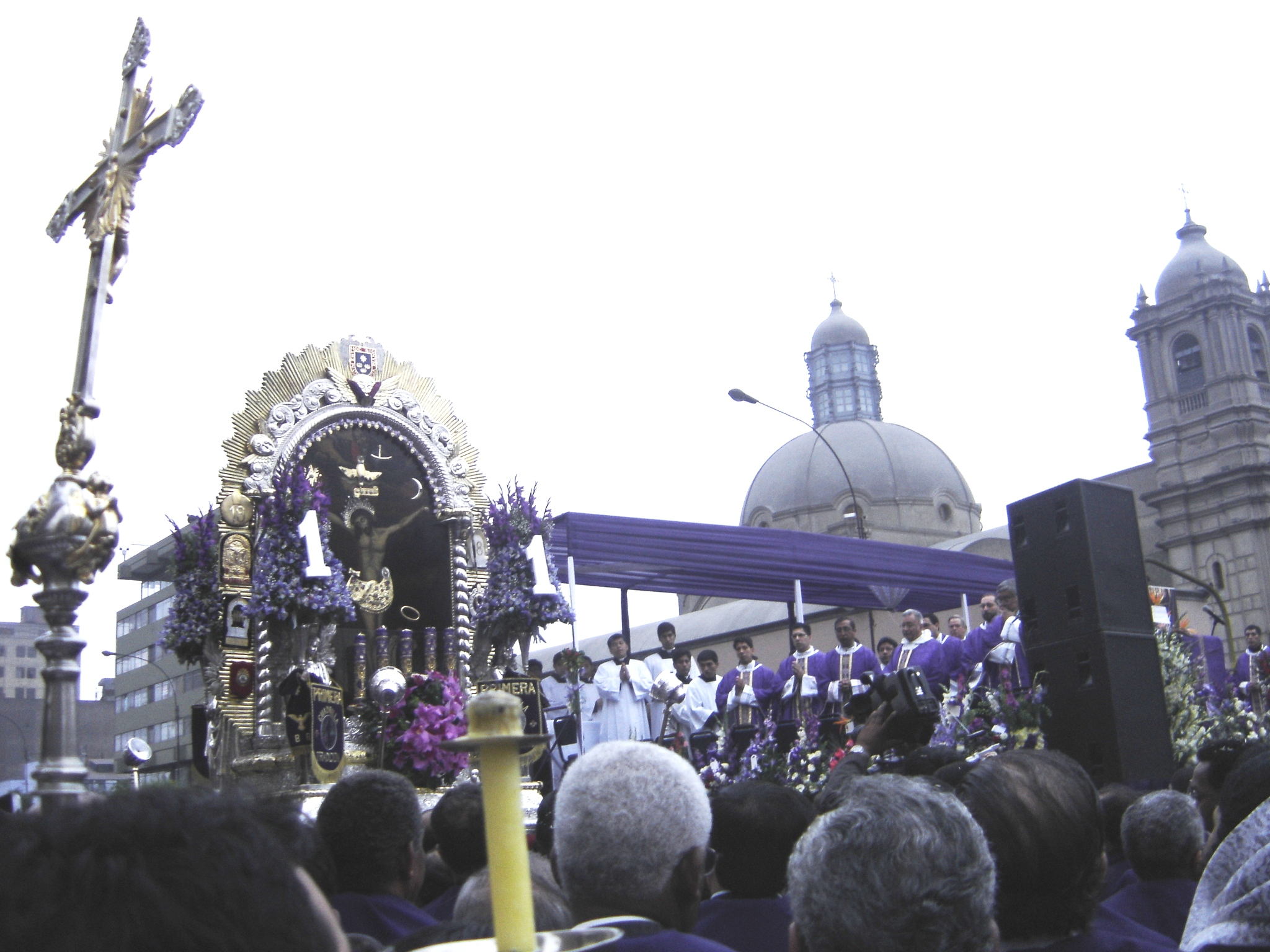 Mass before Procession of Lord of Miracles in Lima, Peru.